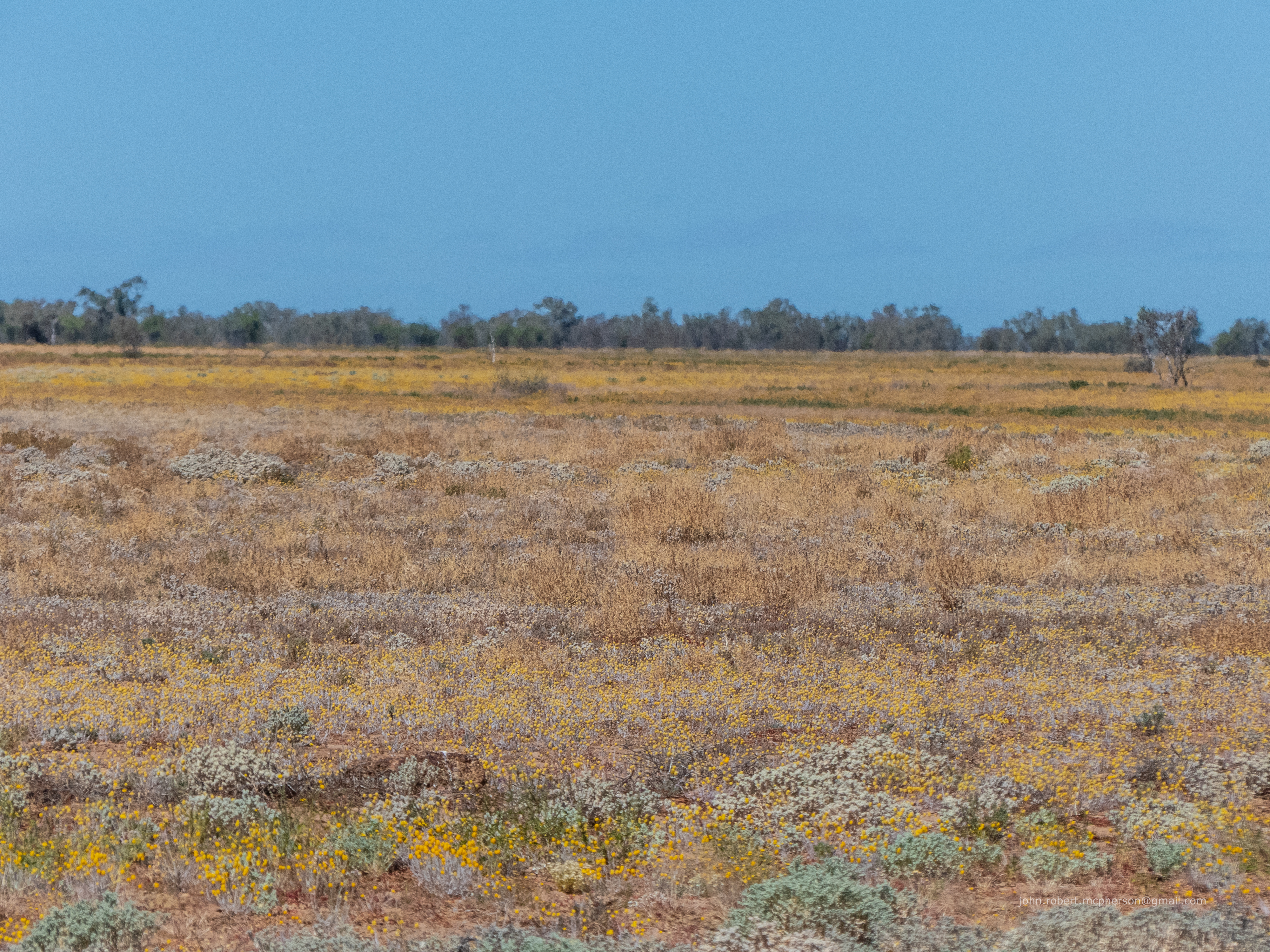 Mitchell grass (Astrebla spp.) is remarkably drought tolerant. It springs to life following rain events with a flush of wildflowers accompanying the grass growth..